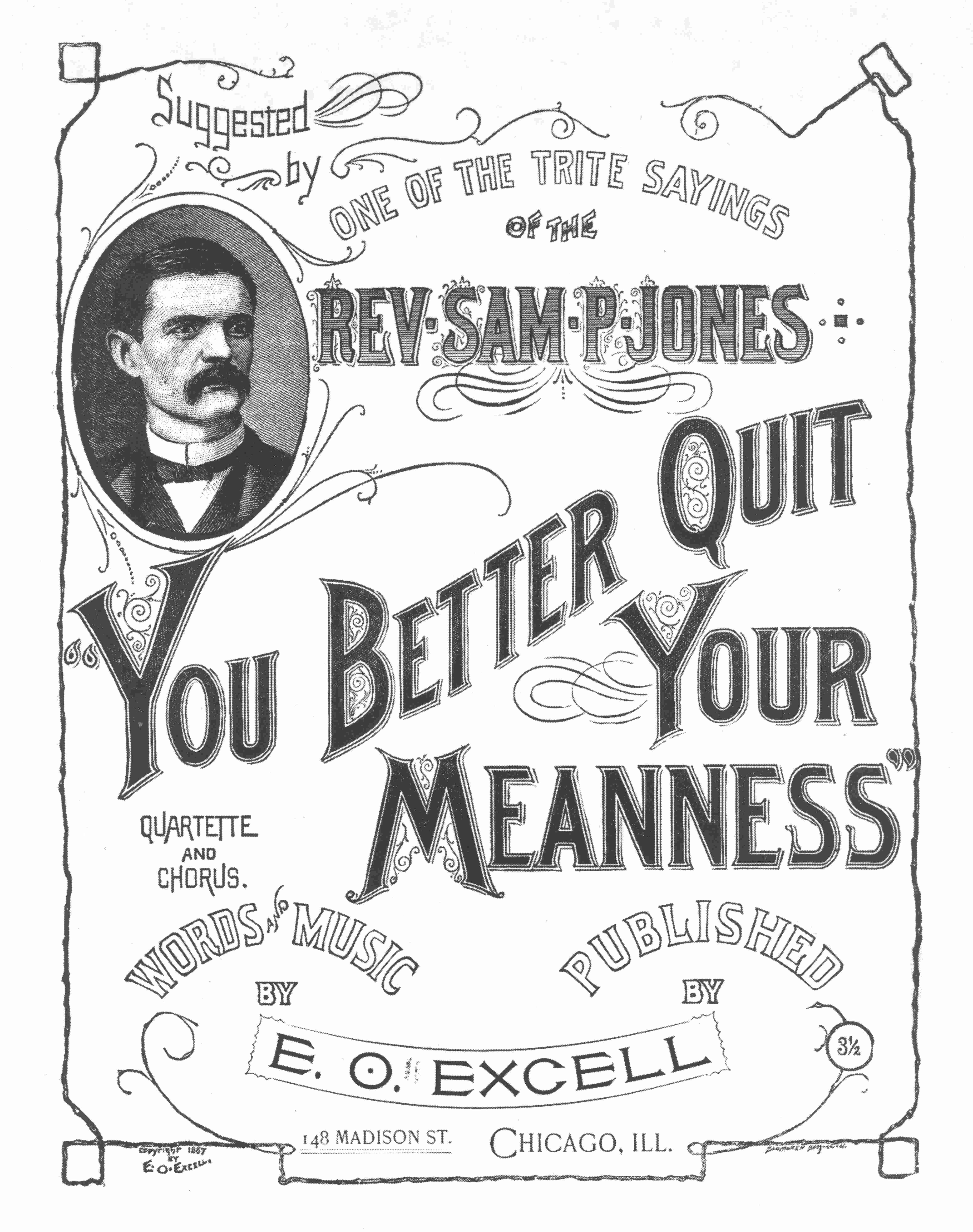 Cover sheet from You Better Quit Your Meanness